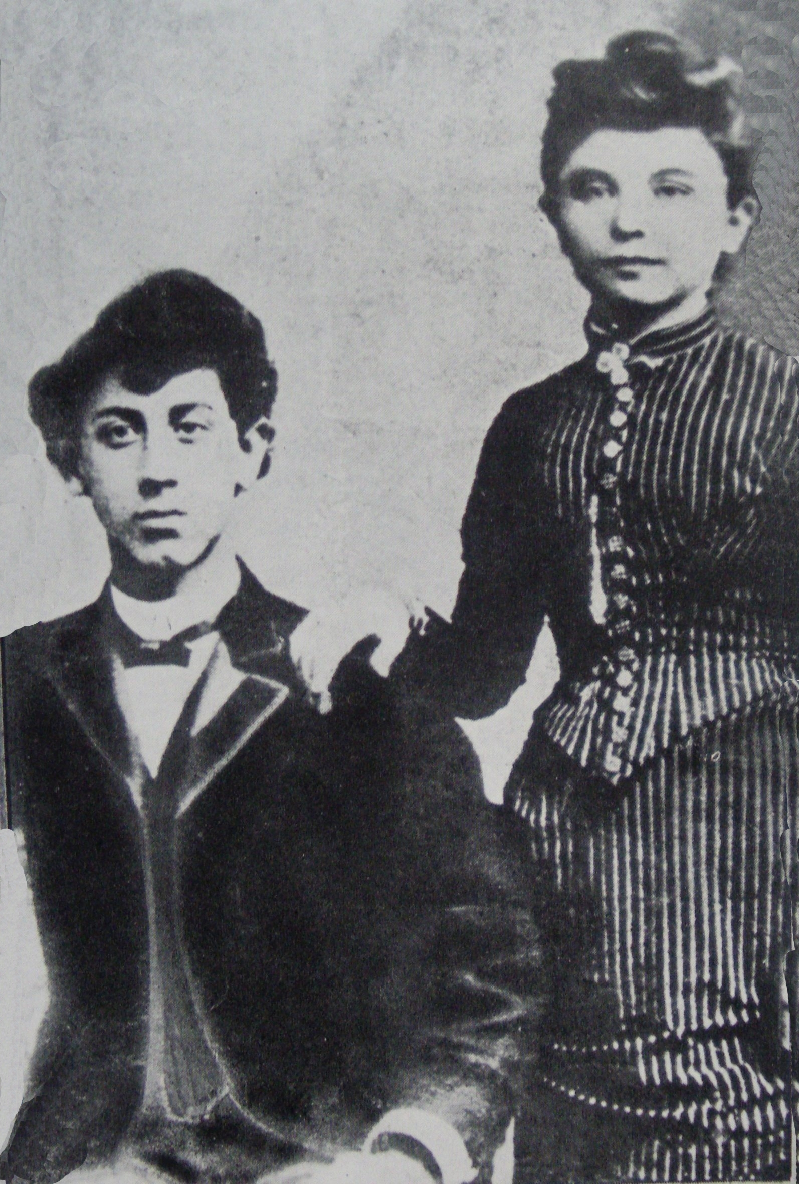 Yiddish theater actors Boris and Bessie Thomashefsky engagement photo